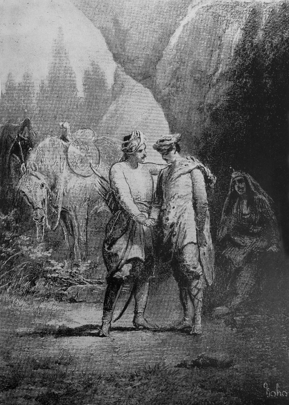 The Knight in the Panther's Skin